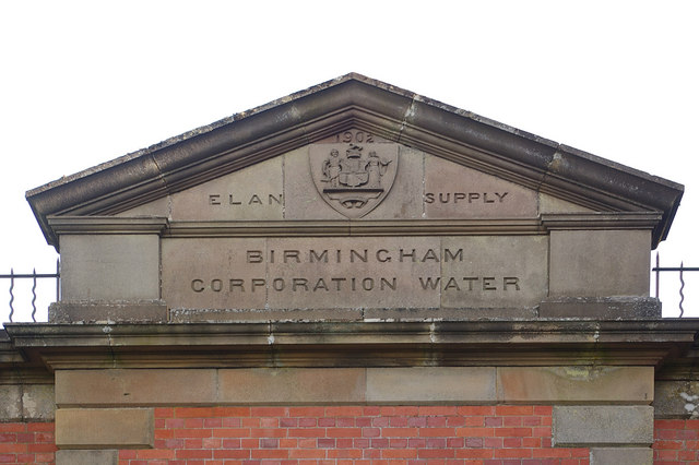 Valve house pediment. Closeup of pediment of valve house in 1191309.